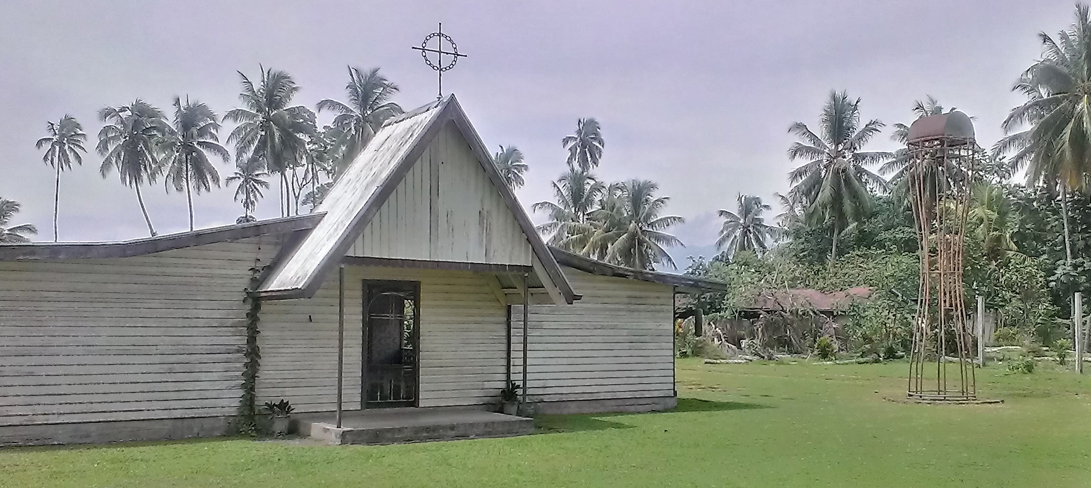 Photo of the Lutheran Church at Malahang Mission Station, Lae, Morobe Province. The new bell tower to the right of the picture. Photo taken 30 January 2014